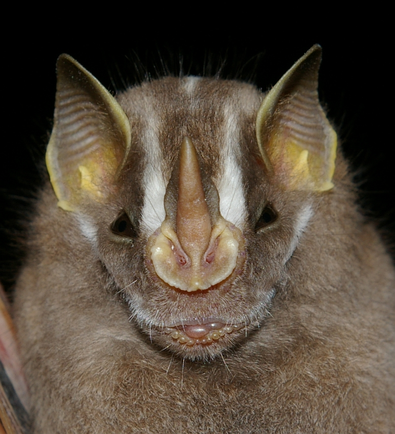 Close-up of Platyrrhinus helleri